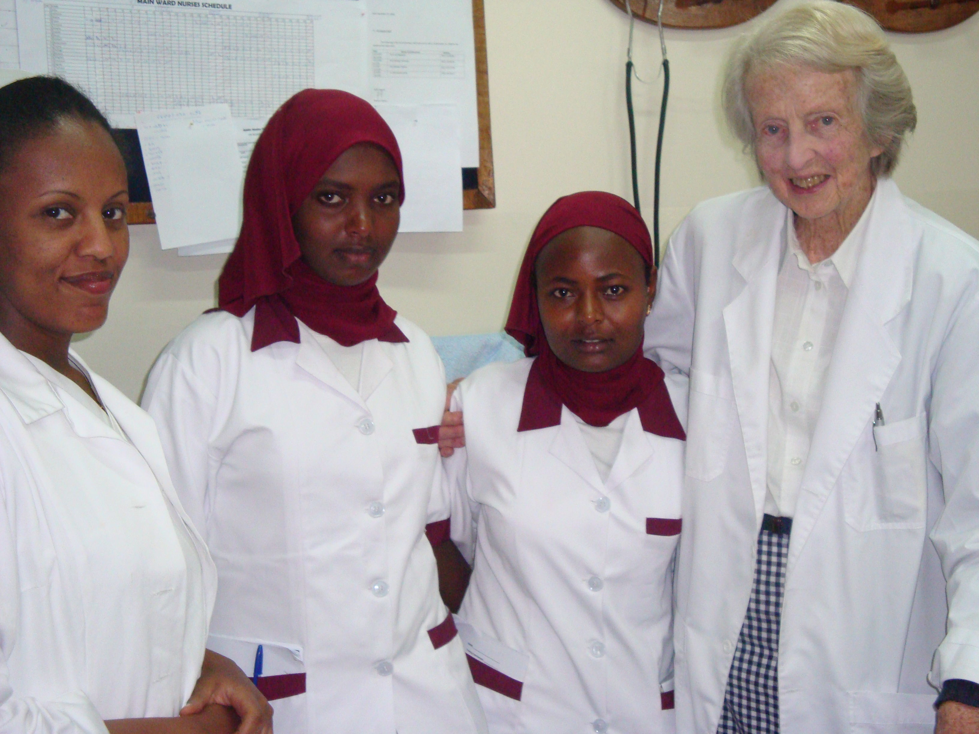 Dr Catherine Hamlin with trainee midwives at the Hamlin Fistula Hospital, Ethiopia 2009. Photo: Lucy Horodny, AusAID